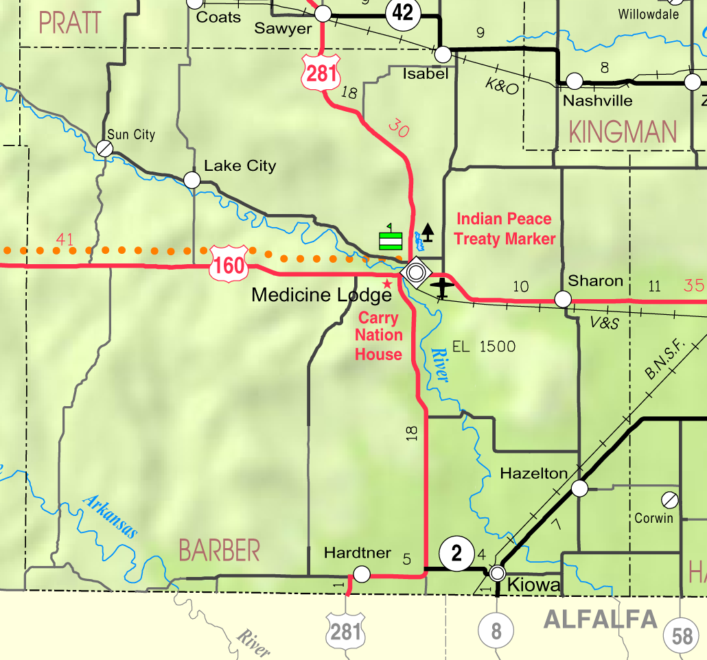 This map of Barber County, Kansas, USA, is copied at a resolution of 300 pixels/inch from the original PDF file.